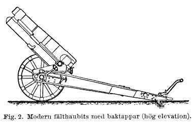 A 1900s field howitzer (probably 15 cm Krupp L/14) with rear trunnions (high elevation)